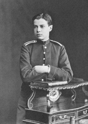 Grand Duke Viacheslav Konstantinovich of Russia